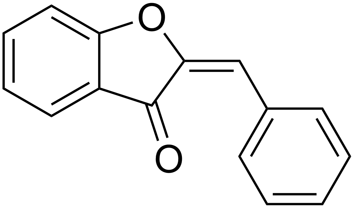 Chemical structure of Aurone.